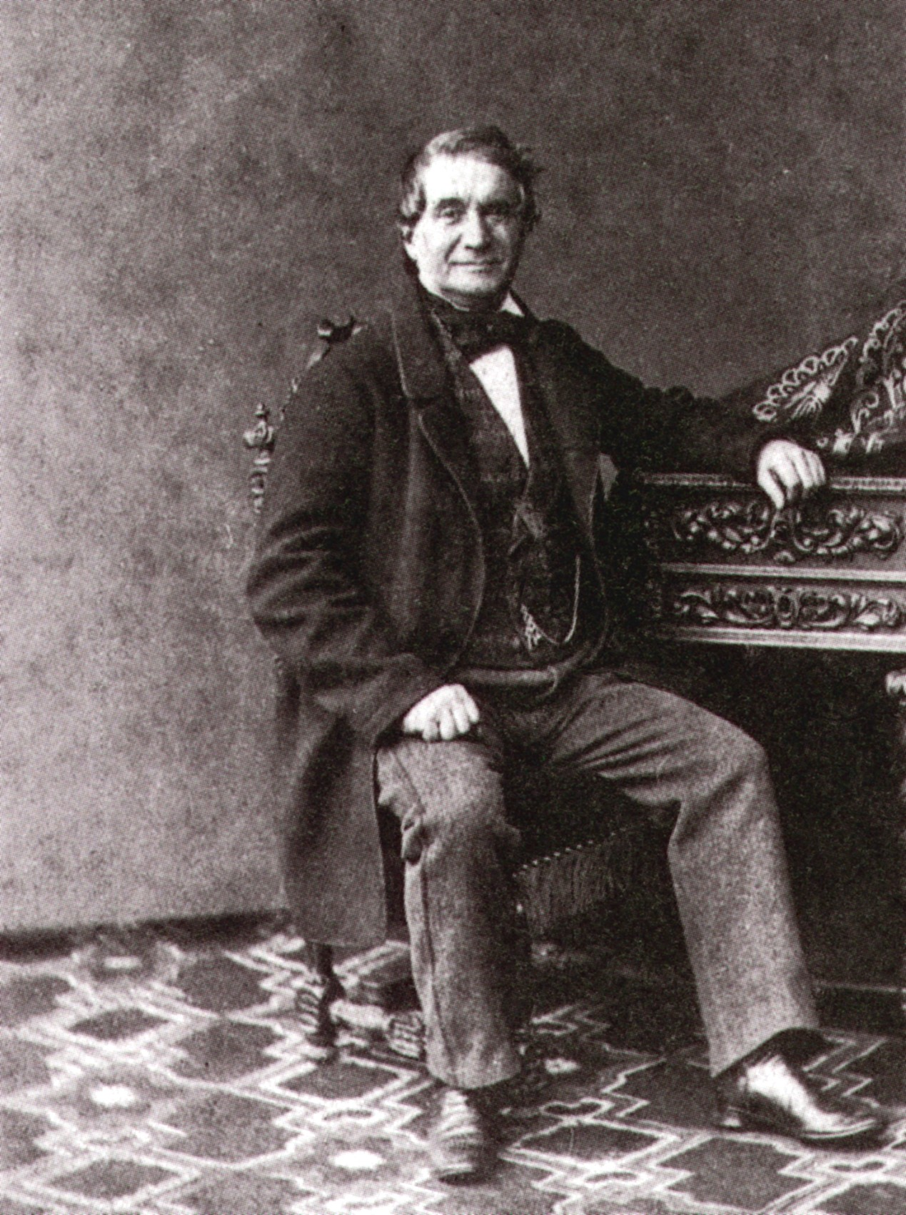 Photo of Maestro Cesare Pugni (1802-1870). Composer of the Ballet Music to Her Majesty's Theatre, London (1843-1850); Composer of Ballet Music to the St. Petersburg Imperial Theatres (1850-1870).